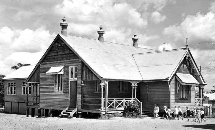 Old State School, Coorparoo, Brisbane. (Located at Old Cleveland Road, Coorparoo.)